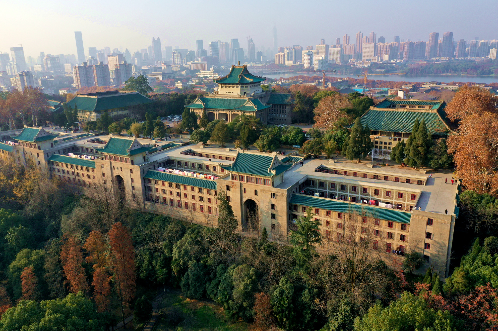 Wuhan University Sakura Castle